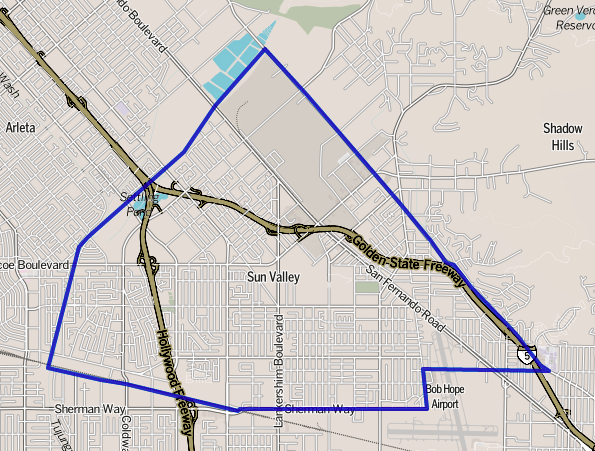 Map of Sun Valley — neighborhood of Los Angeles, in the northeastern San Fernando Valley. as delineated by the Los Angeles Times. Other information Boundary map as drawn by the Los Angeles Times on a CC-by-SA background. Note at bottom right of map on the L.A. Times website noted above says "CC-by-SA" (which gives permission to use the map). There is a link there to which explains the meaning thereof. The base map is credited to The Times spells all this out at